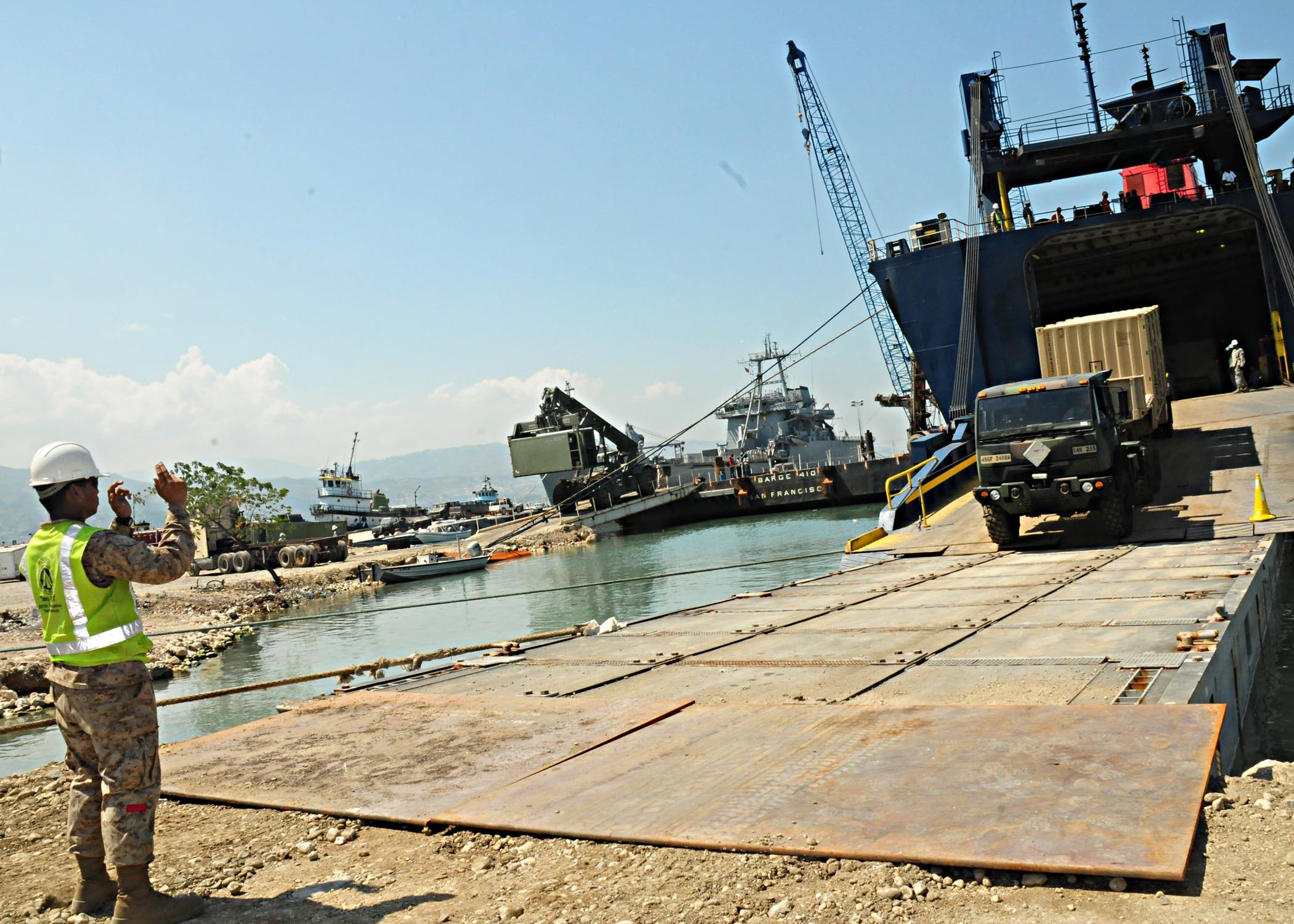 Service members conducting joint logistics over the shore operations at the main seaport in Port-au-Prince, Haiti off-load construction vehicles and equipment assigned to the U.S. Army 7th Sustainment Brigade from the British-flagged Crowley Shipper. Several U.S. and international military and non-governmental agencies are conducting humanitarian and disaster relief operations as part of Operation Unified Response after a 7.0-magnitude earthquake caused severe damage in and around Port-au-Prince, Haiti, Jan. 12.